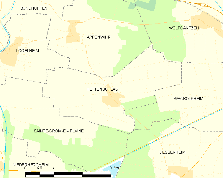 Map of French municipality